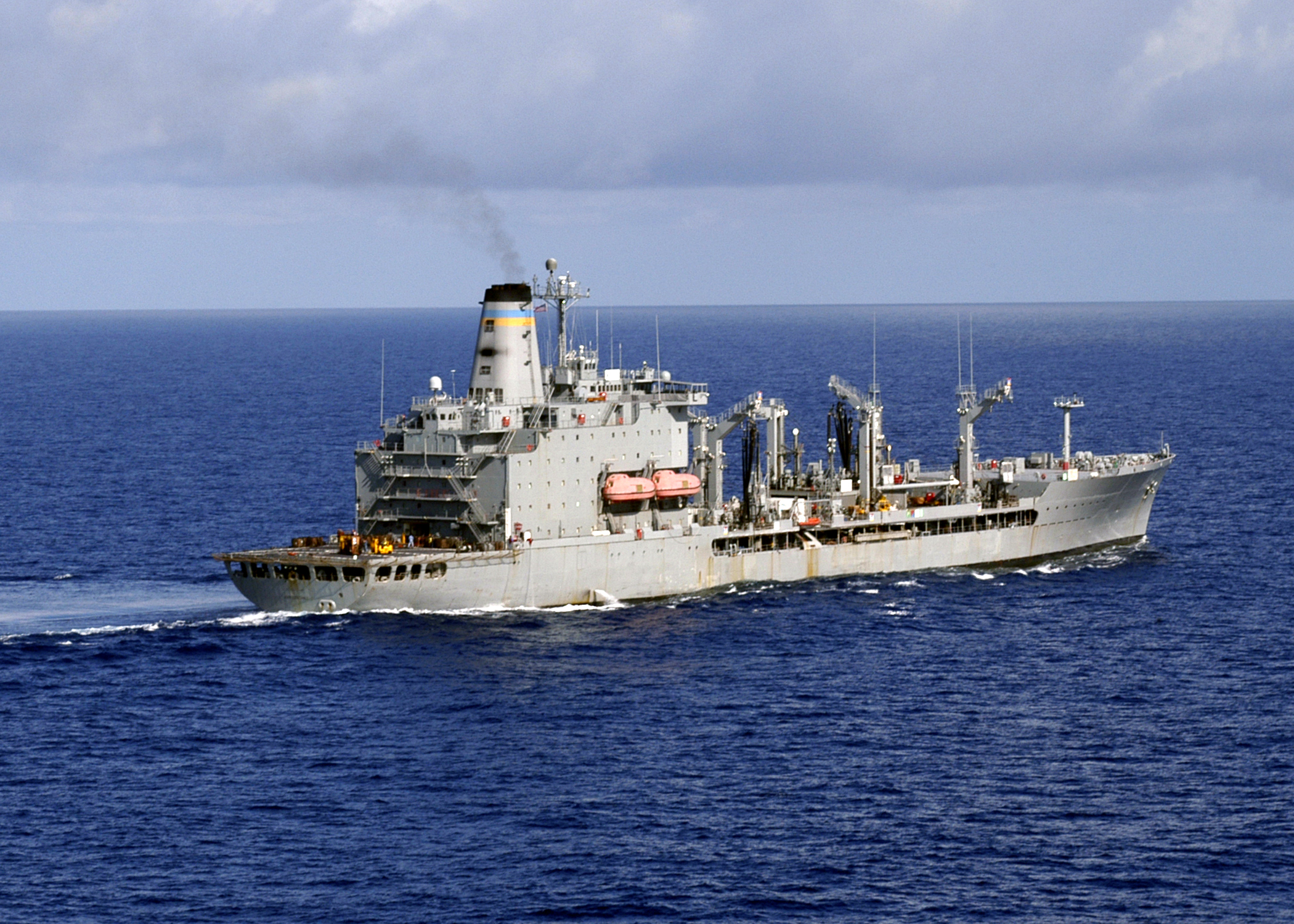 Atlantic Ocean (Sept. 25, 2003) -- Military Sealift Command ship USNS John Lenthall (T-AO-189) steams away from USS Enterprise (CVN-65) after completing an early morning vertical replenishment (VERTREP).